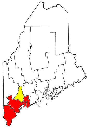 Locator map of the Portland metro area in the southwestern part of the U.S. state of Maine. Red denotes the Portland-South Portland-Biddeford Metropolitan Statistical Area, and yellow denotes the part of the Portland-Lewiston-South Portland CSA that is not included in Portland-South Portland-Biddeford.